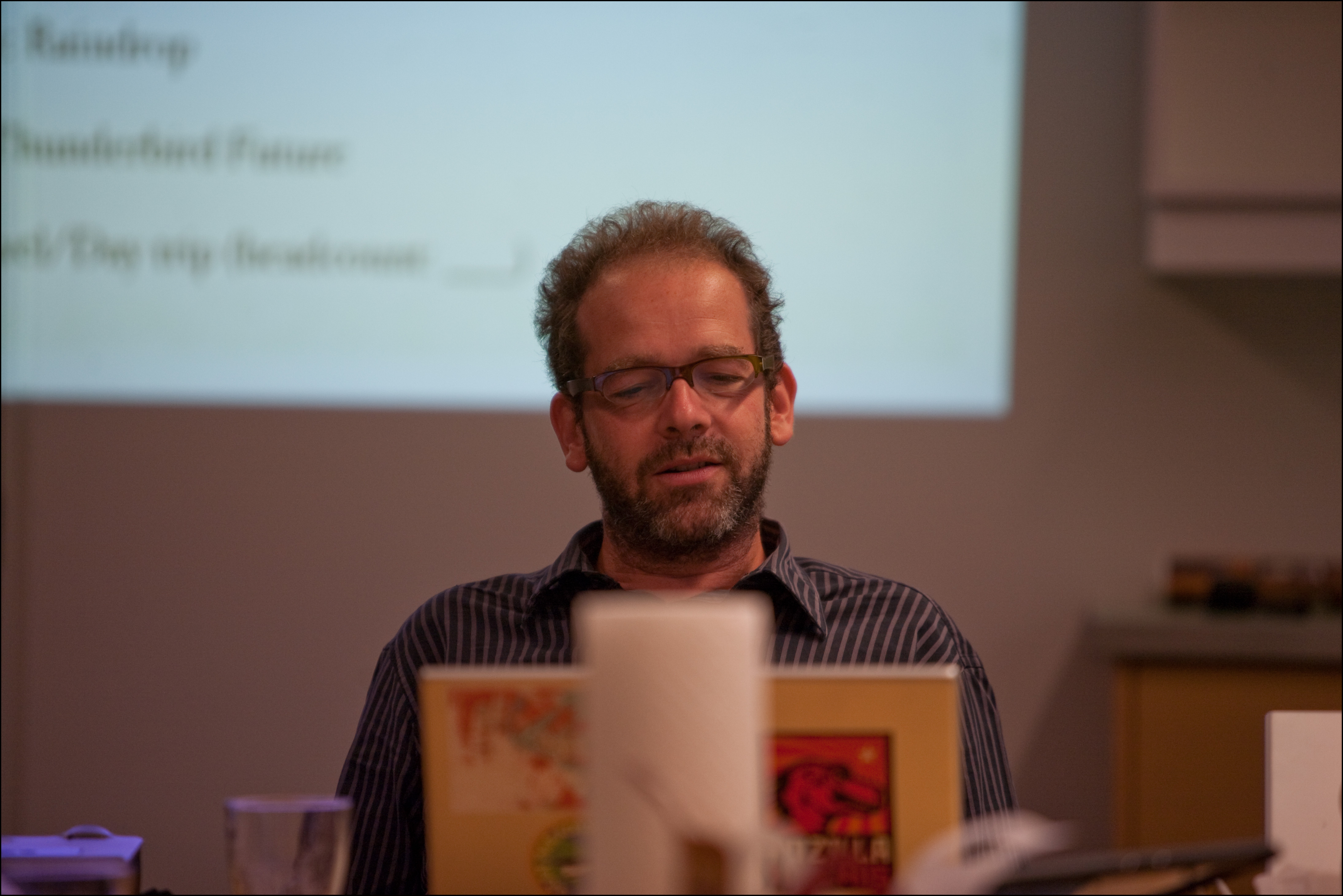 David Ascher Momo All-Hands 2009 The Boss